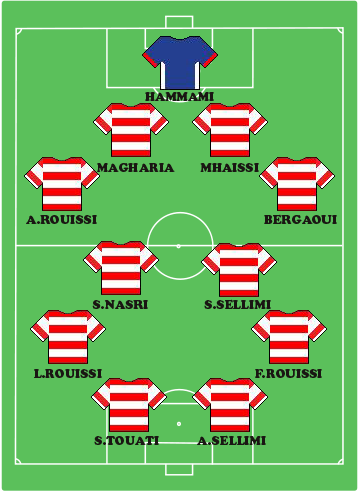 Club Africain lineup, Club Africain vs Villa SC (6-2 / 1-1), 1991